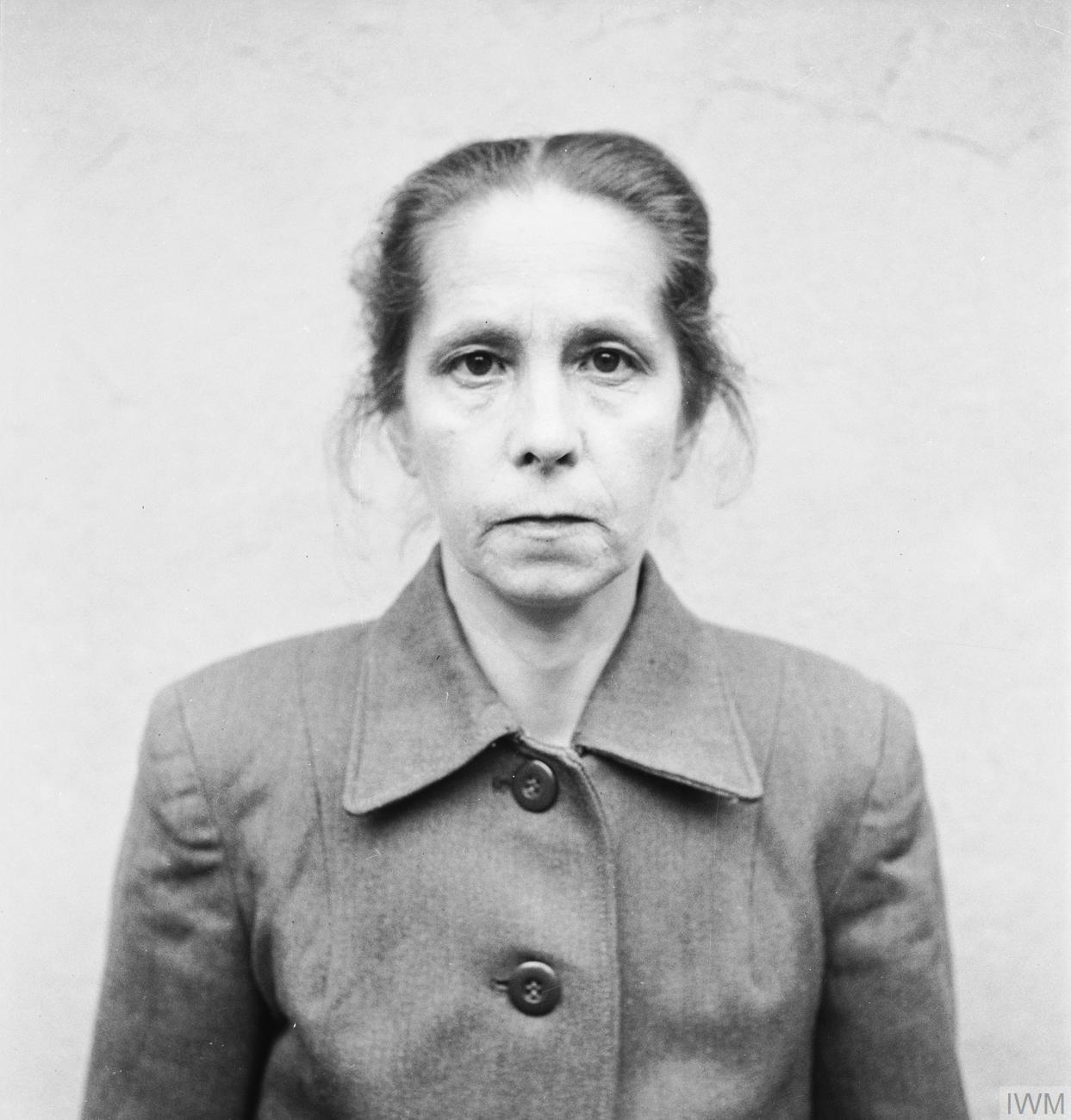 The Liberation of Bergen-belsen Concentration Camp 1945- Portraits of Belsen Guards at Celle Awaiting Trial, August 1945 Johana Borman [sic]: sentenced to death.